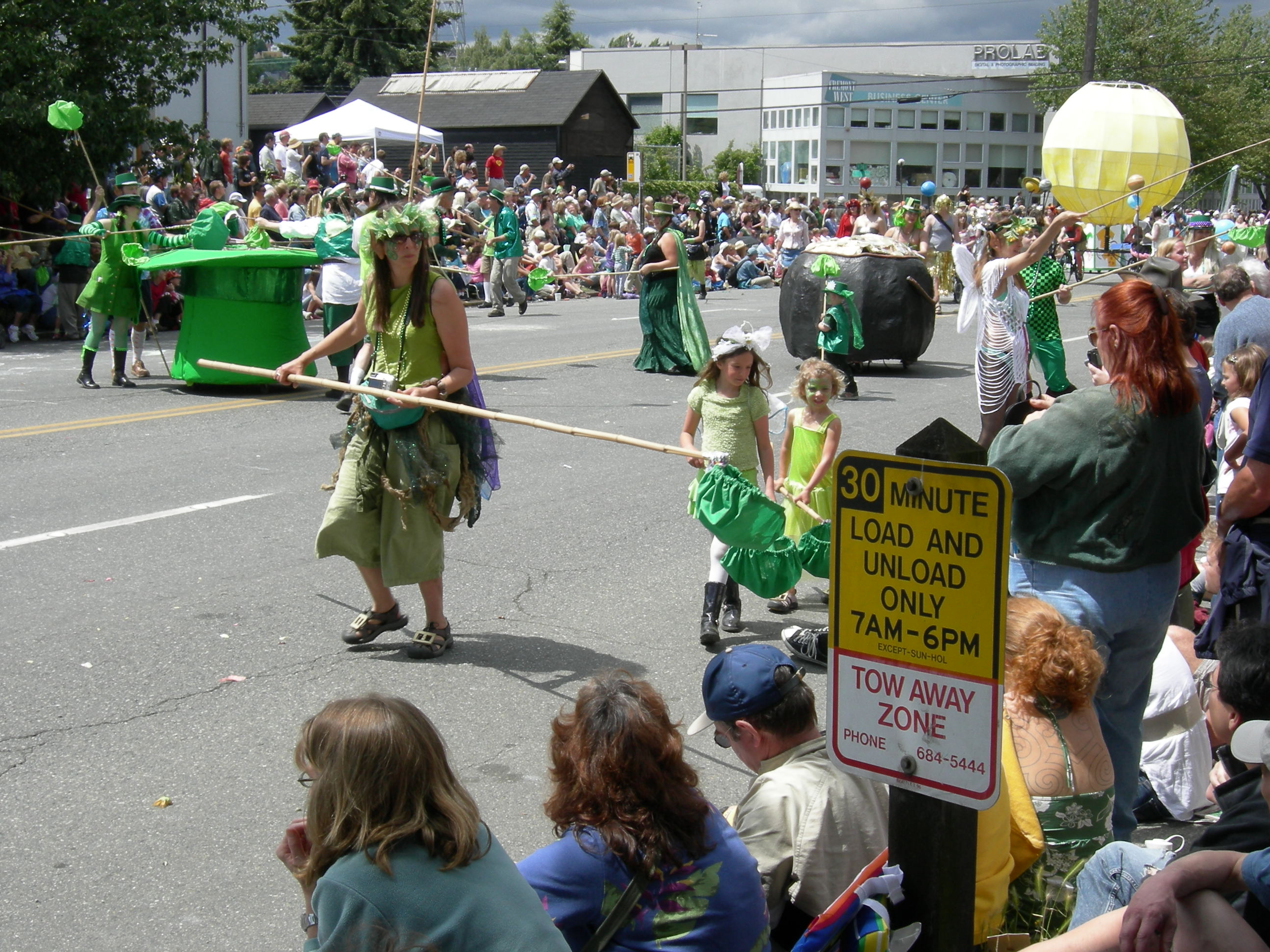 "Leprechauns" at the 2007 Summer Solstice Parade and Pageant, Fremont Fair, Seattle, Washington. The leprechauns "work the crowd" during the parade, raising money for local anti-poverty programs.